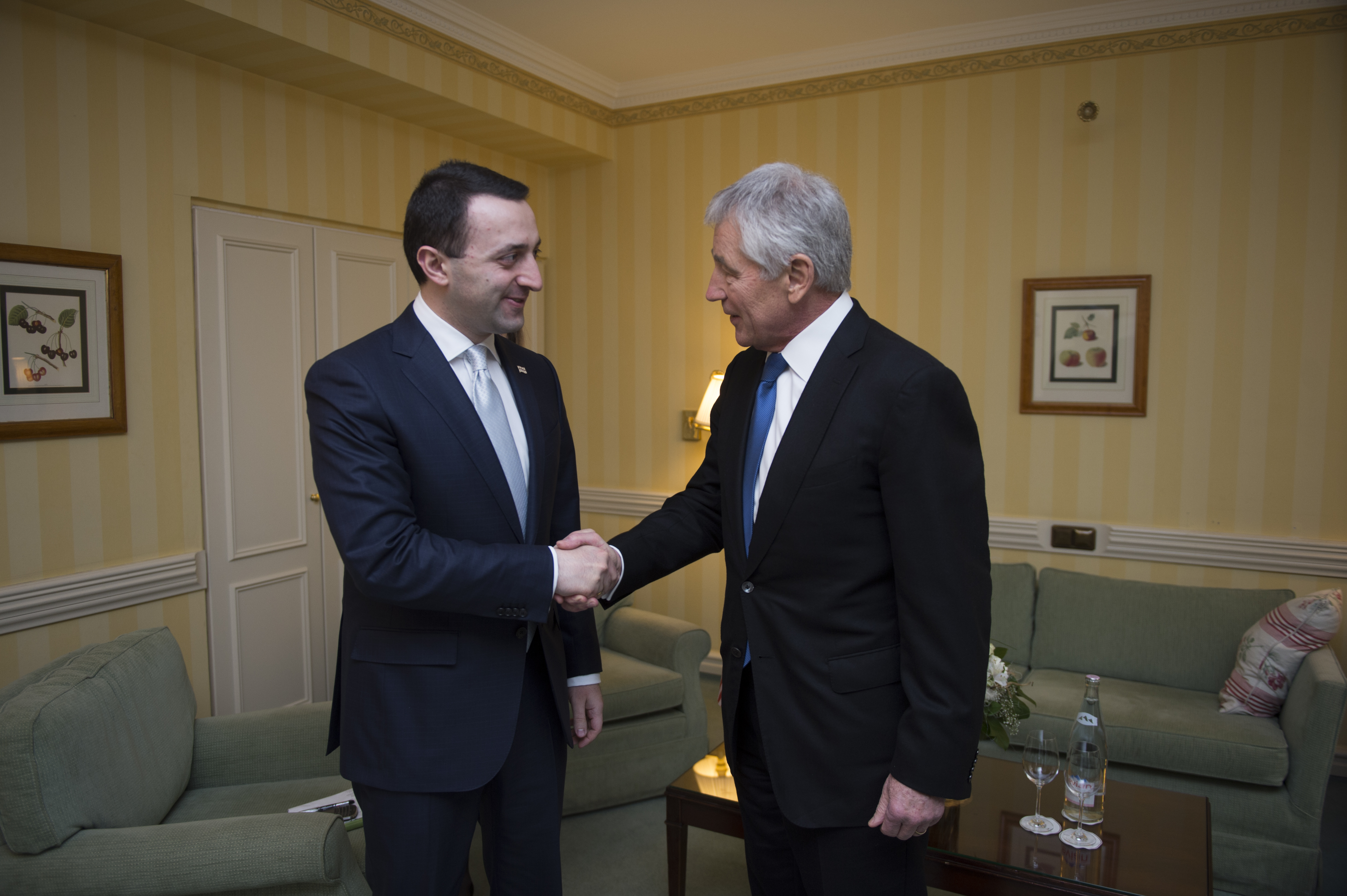 U.S. Secretary of Defense Chuck Hagel meets with Georgian Prime Minister Irakli Gharibashvili at the Munich Security Conference in Munich, Germany February 1, 2014. Official DoD photo by Sgt. Aaron Hostutler USMC (Released)